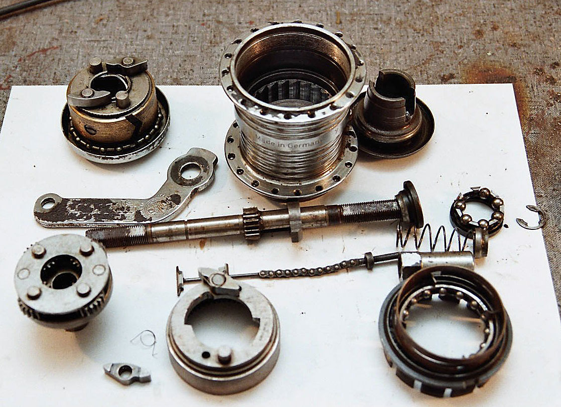 Internal parts of a bicycle three gear hub with coaster brake, make Fichtel & Sachs, Germany, Model type 55